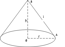 Conus(geometry)